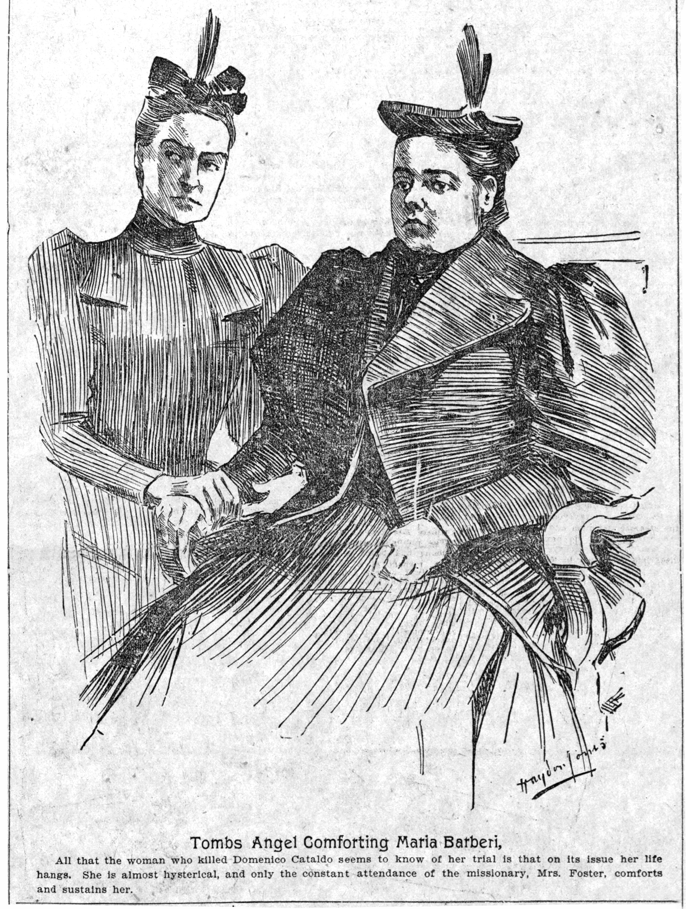 Maria Barbella (or Barberi) (right) at her second murder trial in 1896. Maria was the second woman sentenced to die in the electric chair. She was convicted of killing her lover in 1895; however, the ruling was overturned in 1896 and she was freed. Illustration also depicts missionary Rebecca Salome Foster (left), given the moniker of the "Tombs Angel" because she attended to female criminals incarcerated at The New York Halls of Justice and House of Detention (otherwise known as "The Tombs"). Haydon Jones (1871-1954) illustration.